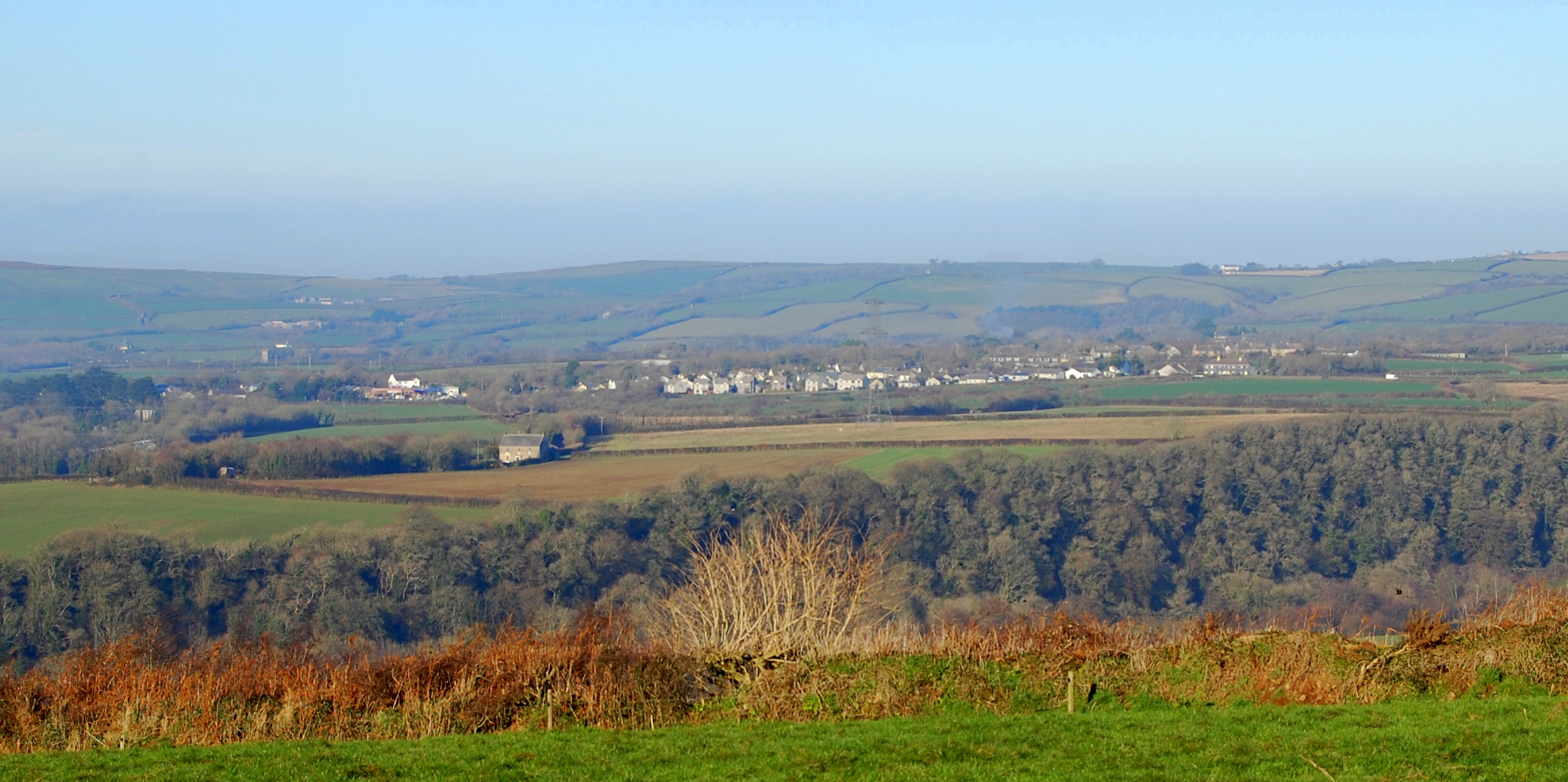 St Kew Highway